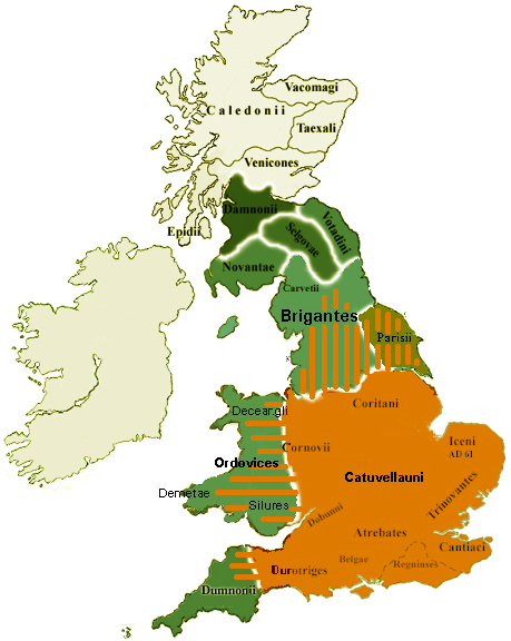 Apparently an inaccurate map of Roman-held areas around ad 100. In fact, the Iceni were held before 61 and other conquests were also effected by then, even if they were later reversed. Use other maps.